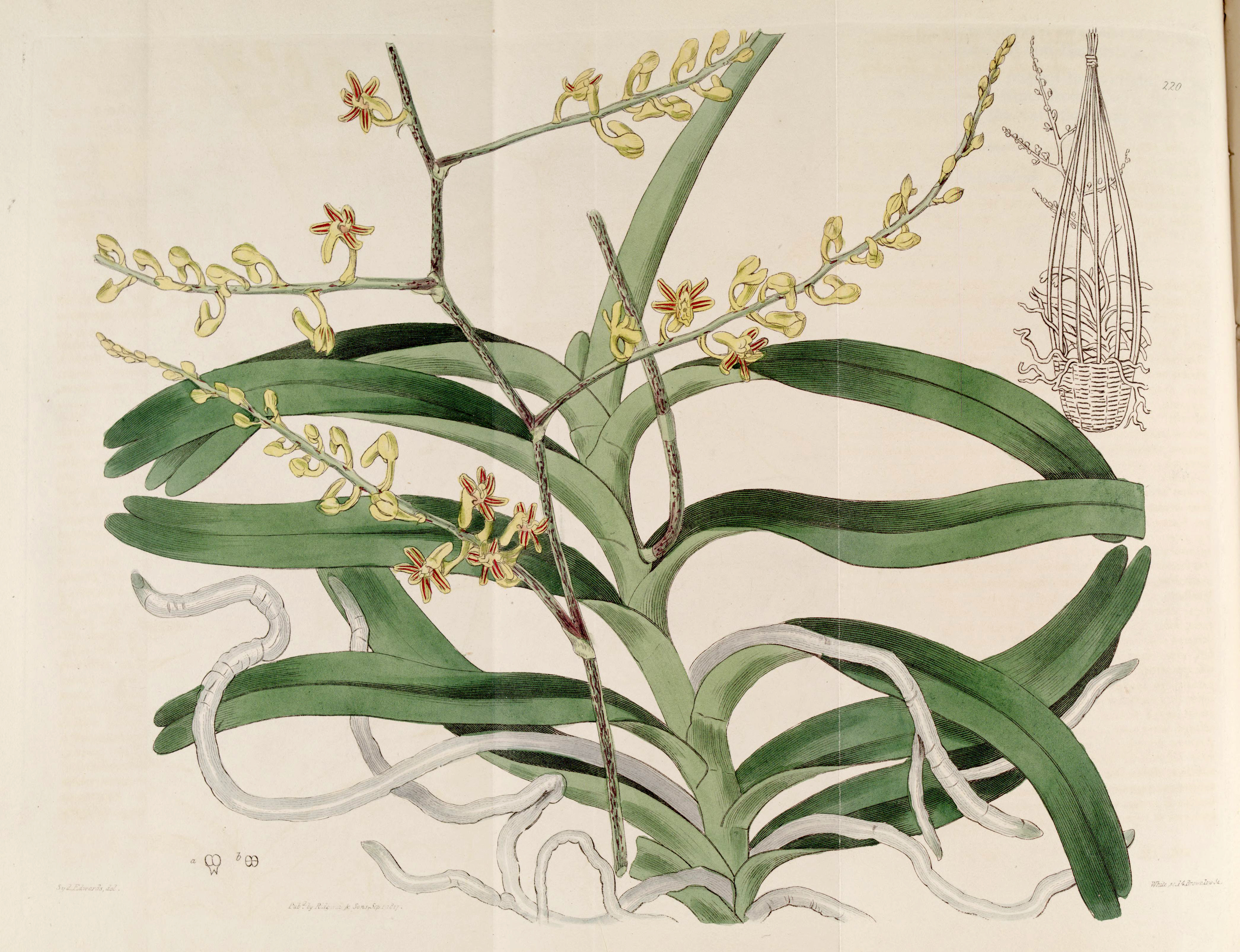 Illustration of Cleisostoma paniculatum (as syn. Aerides paniculata)